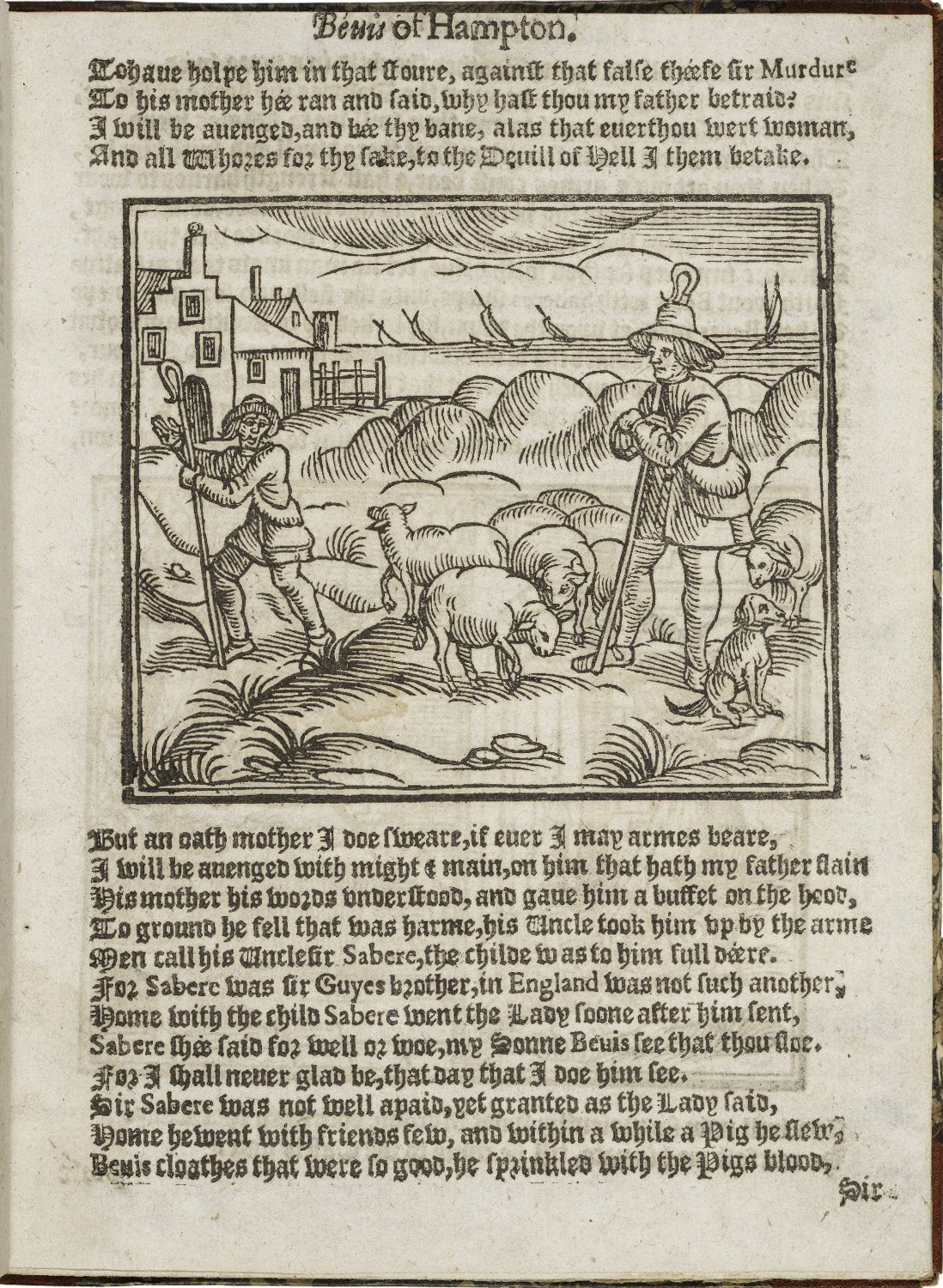 A page from Beuve de Hanstone. Syr Beuis of Hampton. London ca. 1630.